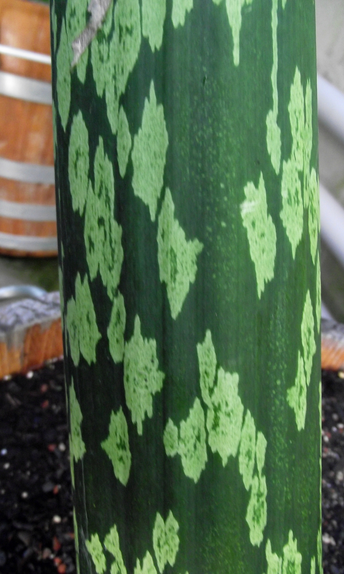 Plant stem of Amorphophallus muelleri